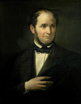 Mercadante-mid-age